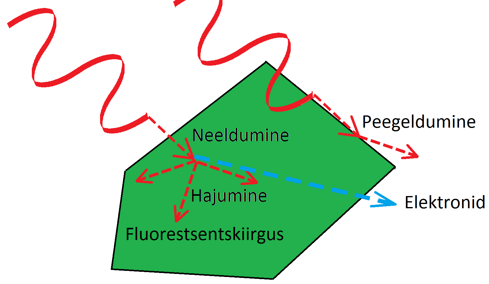 X-ray interaction with substance